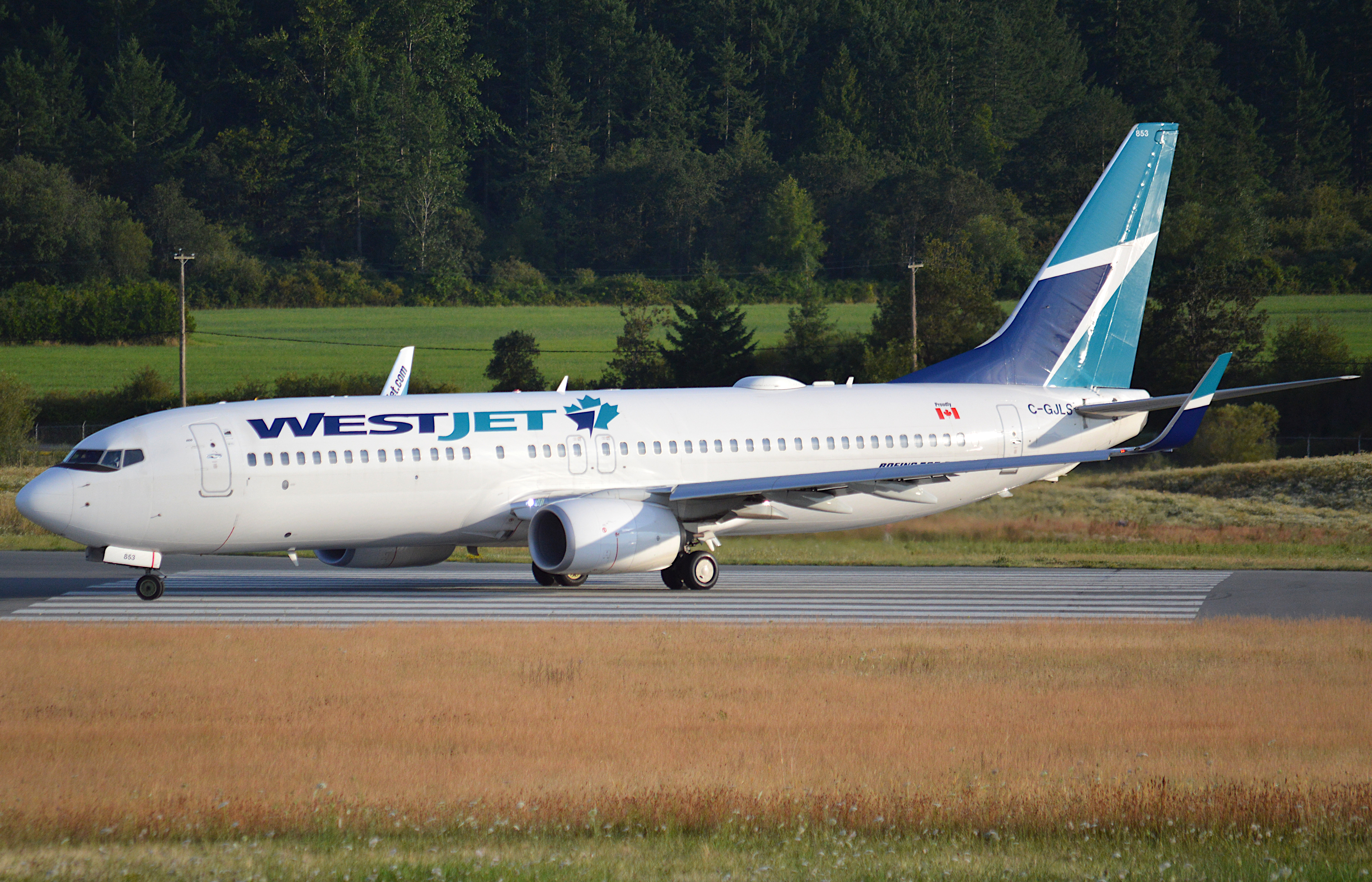 WestJet Boeing 737-800 C-GJLS taxiing for departure onto runway 09, Victoria International Airport, July 22, 2019